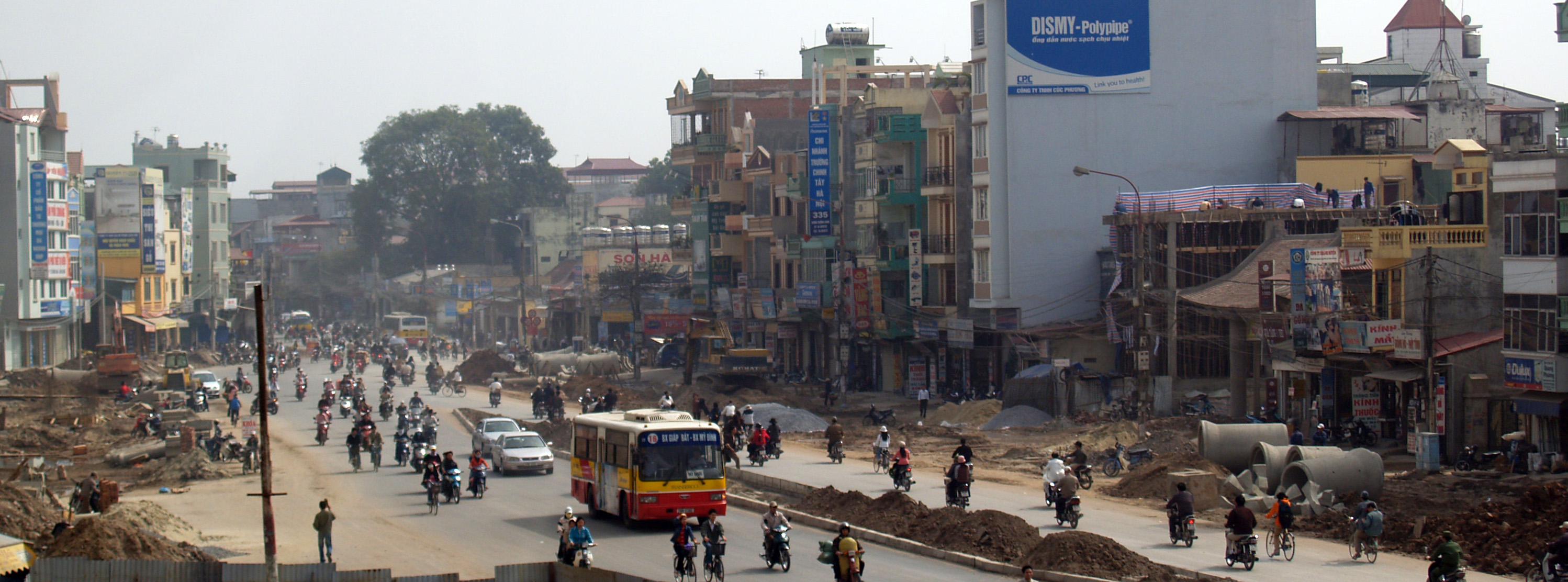 Hanoi panorama.